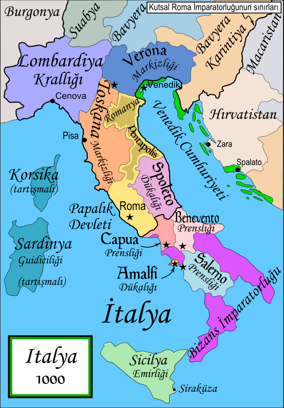 Turkish version of the File:Italy_1000_AD.svg